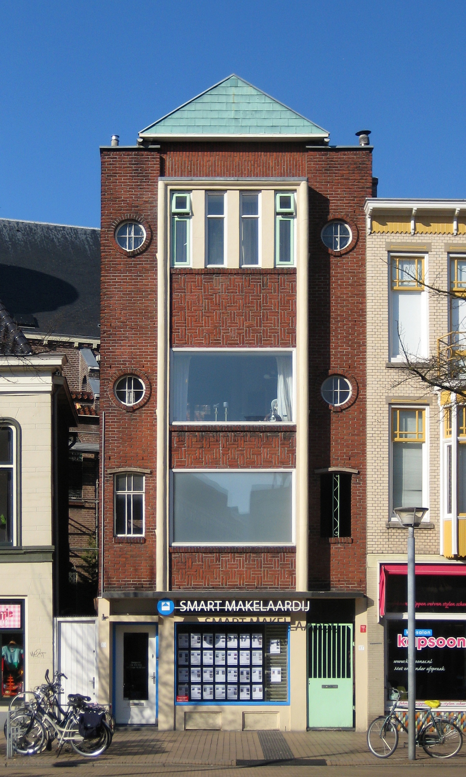 Building (1940) in the Dutch city of Groningen.